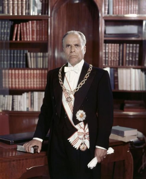 Photo officielle de Habib Bourguiba